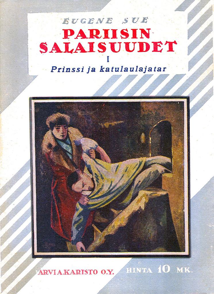 Cover art (by anonymous artist) for Finnish edition of Eugene Sue's Mysteres de Paris